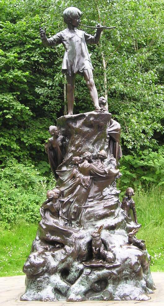 Bronze statue of Peter Pan located in Kensington Gardens, London